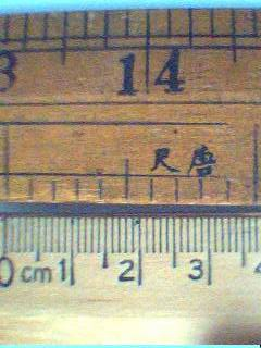 A close-up picture of a section of ruler with British (inches) and Chinese (cun) scales on its two sides. This is the 10th cun - the last cun of a chi, so that one can see that 1 chi (10 cun) was equal to 14+5/8 inches, i.e. 371 mm. A metric ruler is shown next to it for scale. As can be seen from the worn corners, the ruler has been well used in measurements of length, such as perhaps of garment cloth, for trade transactions.